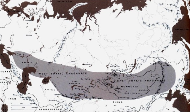 Map of Gokturks